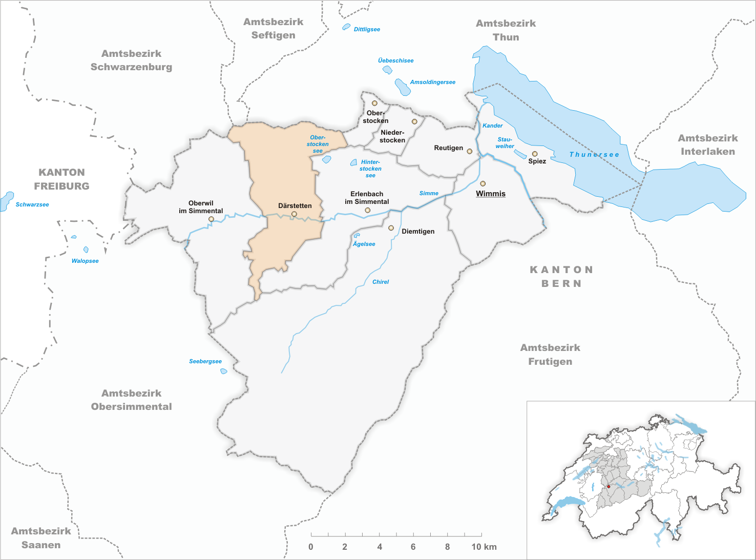 Municipality Därstetten